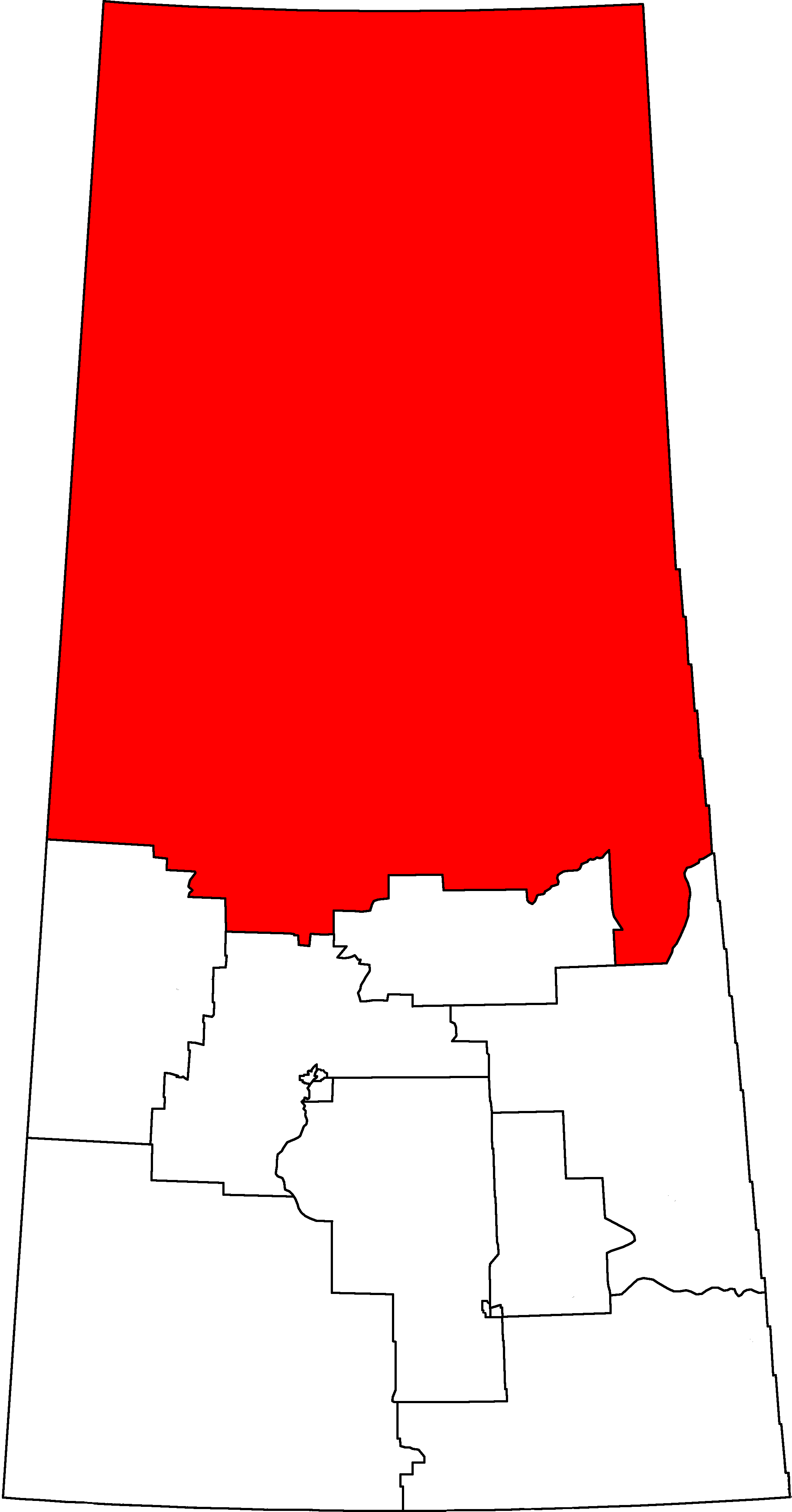 Federal Electoral District in Saskatchewan, Canada as of the 2013 Representation Order.